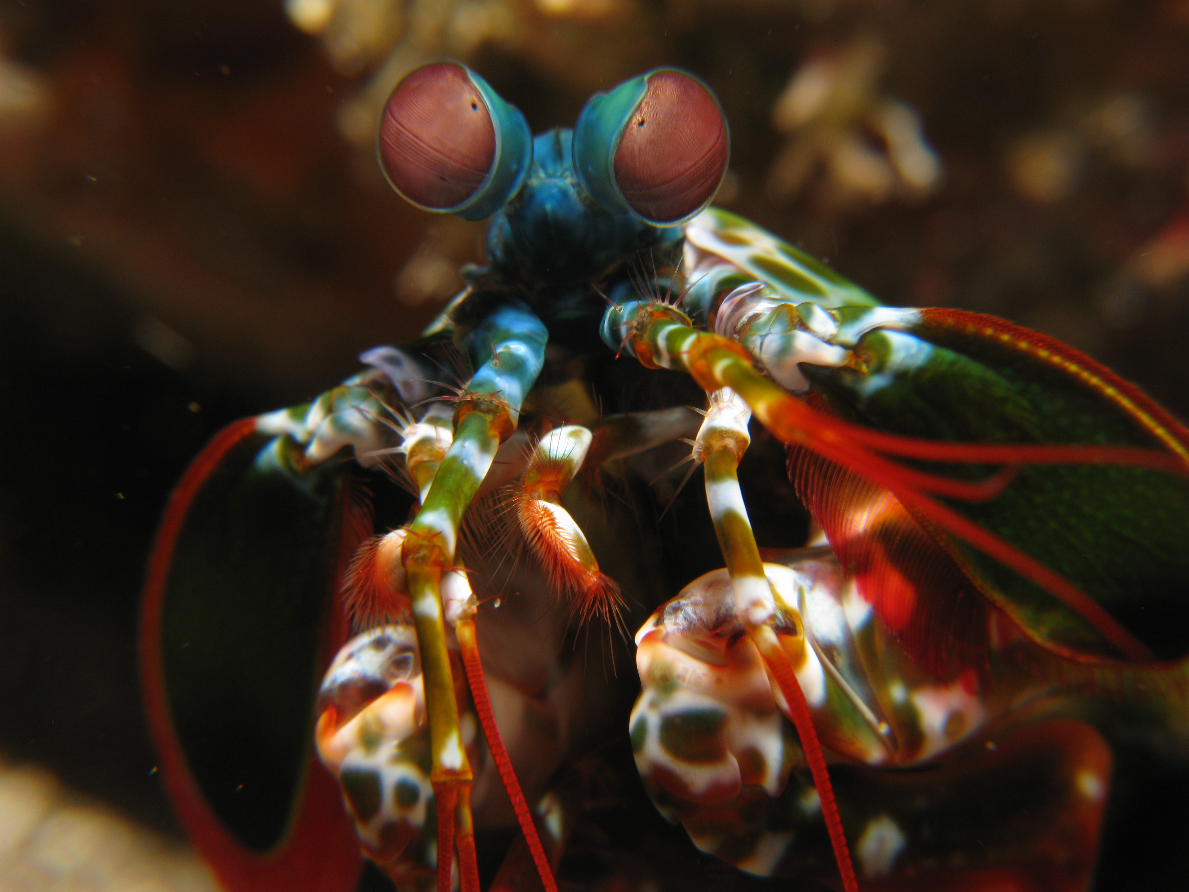 Mantis Shrimp macro - Odontodactylus scyllarus